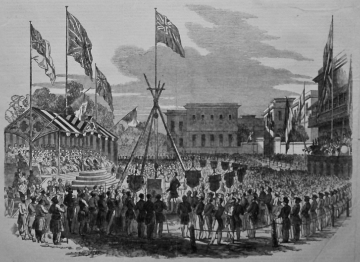 Scanned image of the photograph of a 19th century work, reprinted in Kolkata Shahaher Itibritta by Benoy Ghosh.